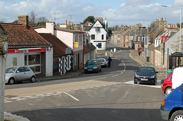 Main Street, Leuchars Central section of Main Street, Leuchars from the bottom of School Hill.